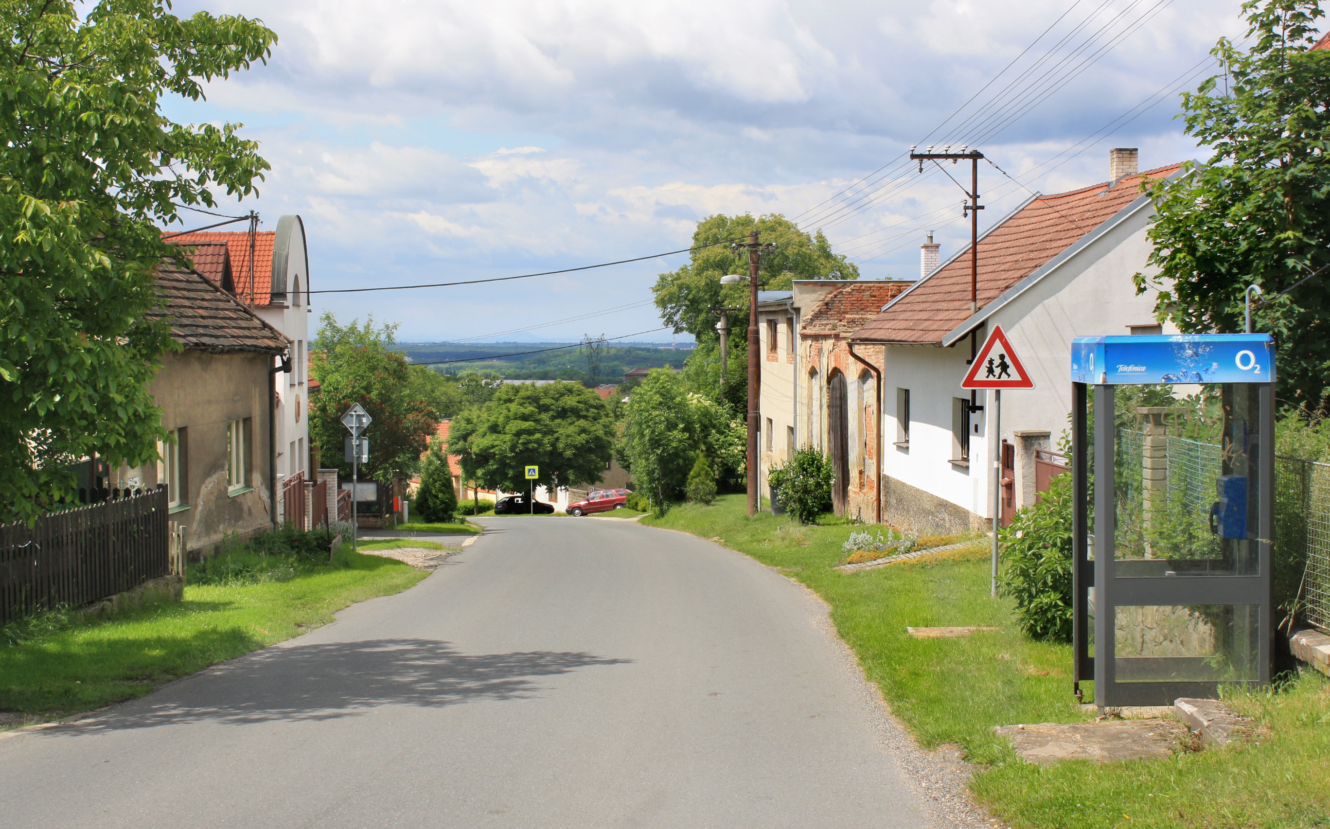 Main street in Přišimasy village, Czech Republic